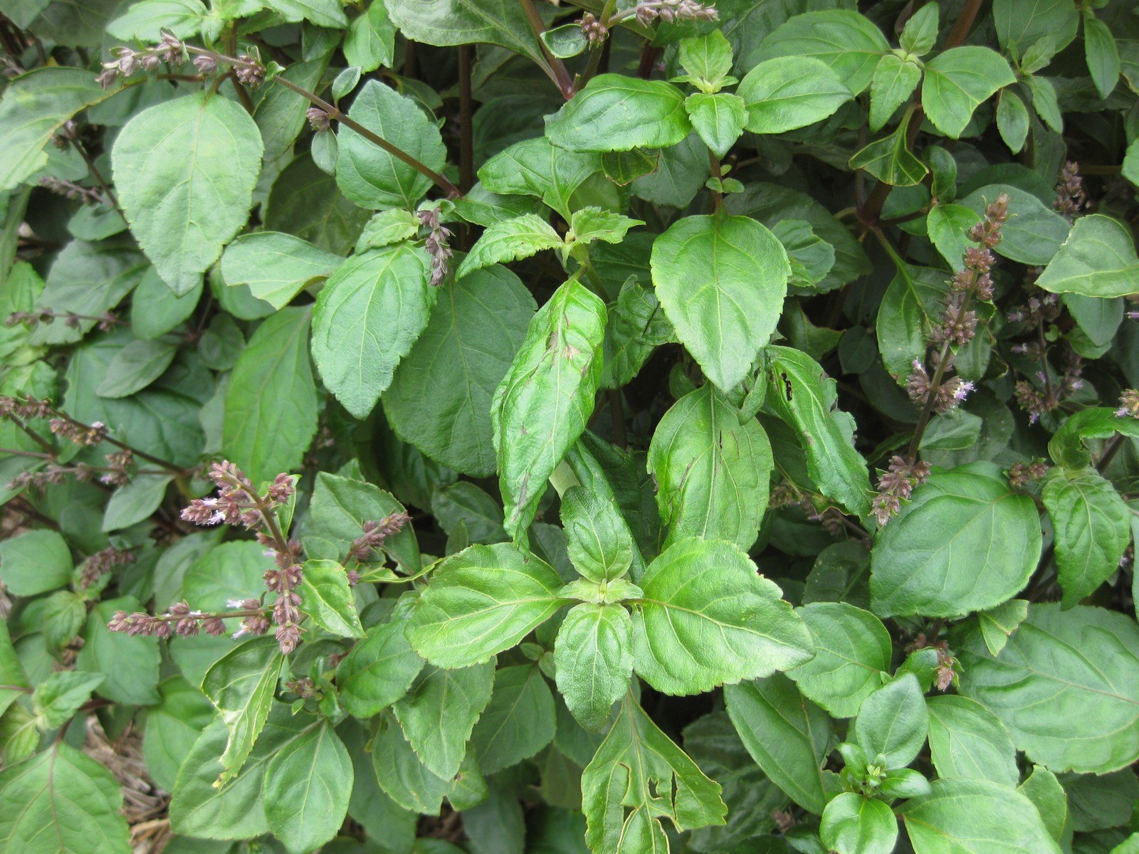 Photographed at the Royal Botanic Gardens Sydney (Australia) in January